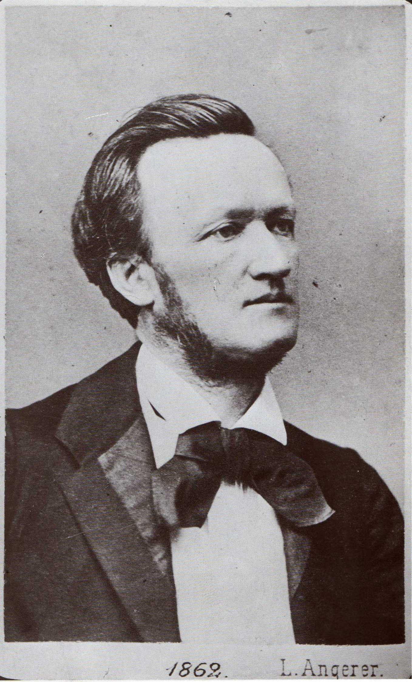 Portrait of Richard Wagner in 1862